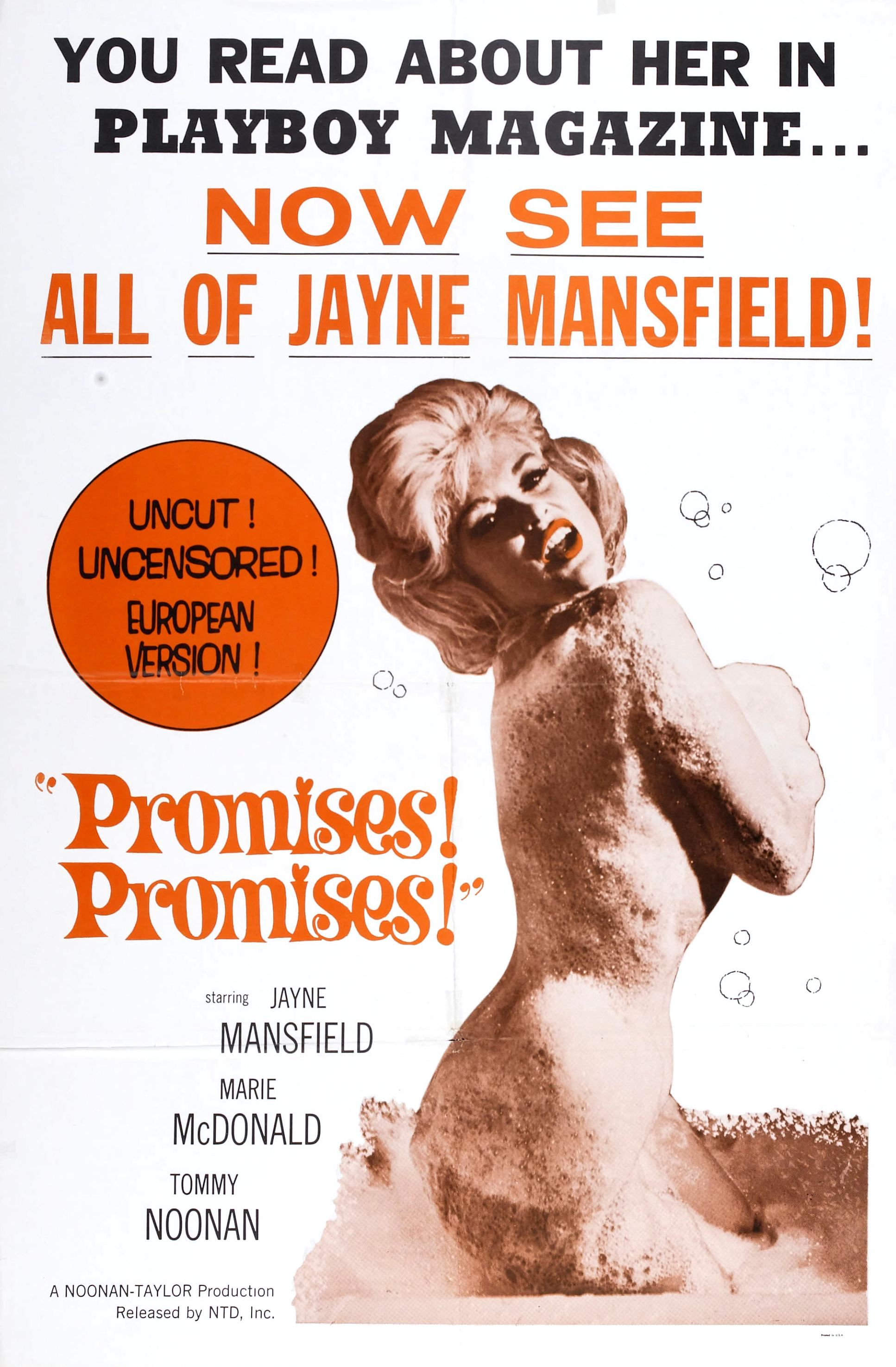 Film poster of the exploitation film Promises! Promises!